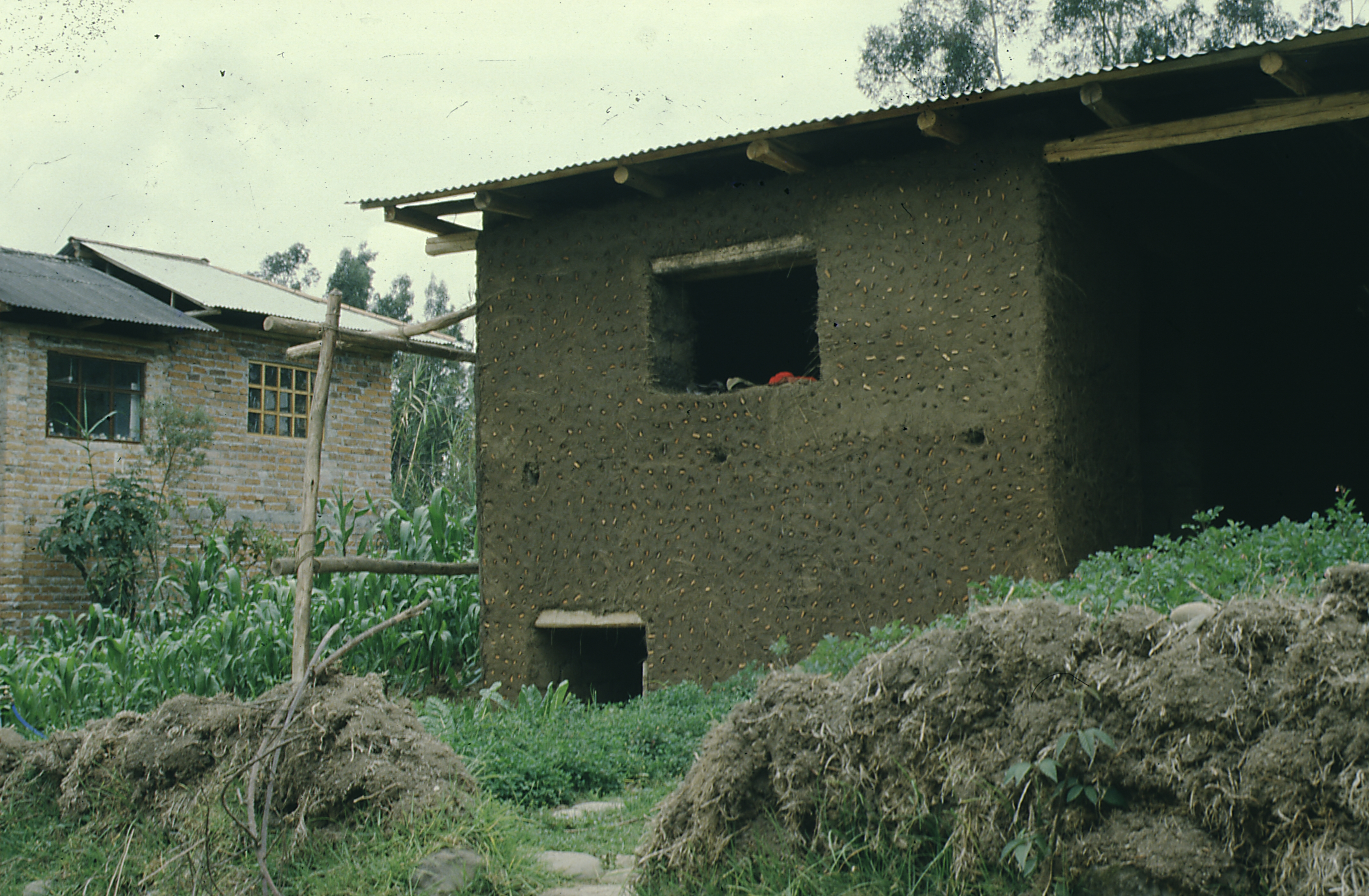 This photo has been scanned with a Reflecta DigitDia 6000 image scanner. Personality rights warningAlthough this work is freely licensed or in the public domain, the person(s) shown may have rights that legally restrict certain re-uses unless those depicted consent to such uses. In these cases, a model release or other evidence of consent could protect you from infringement claims.